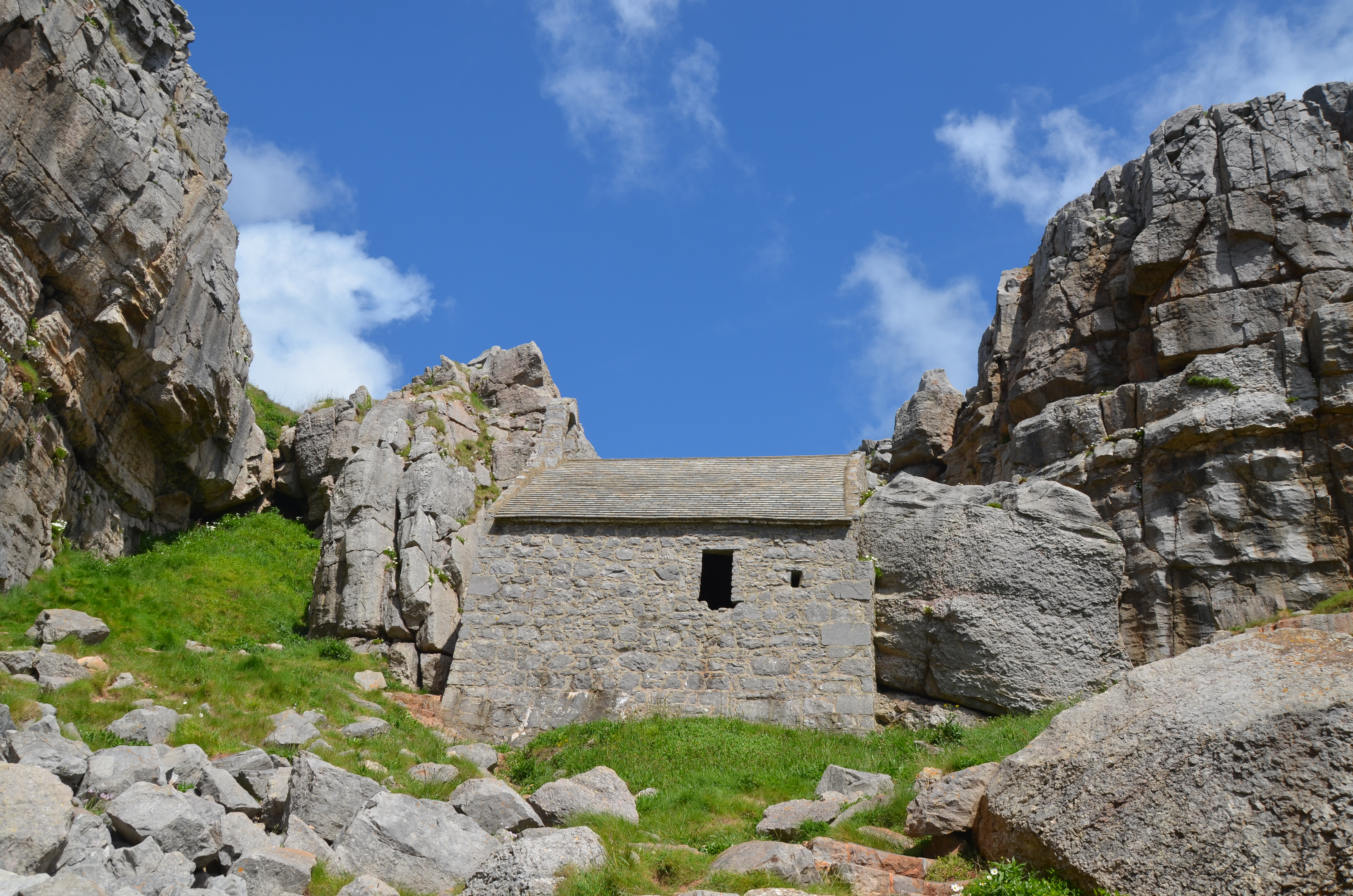 St. Govan's Chapel Wikidata has entry Q15979526 with data related to this item.